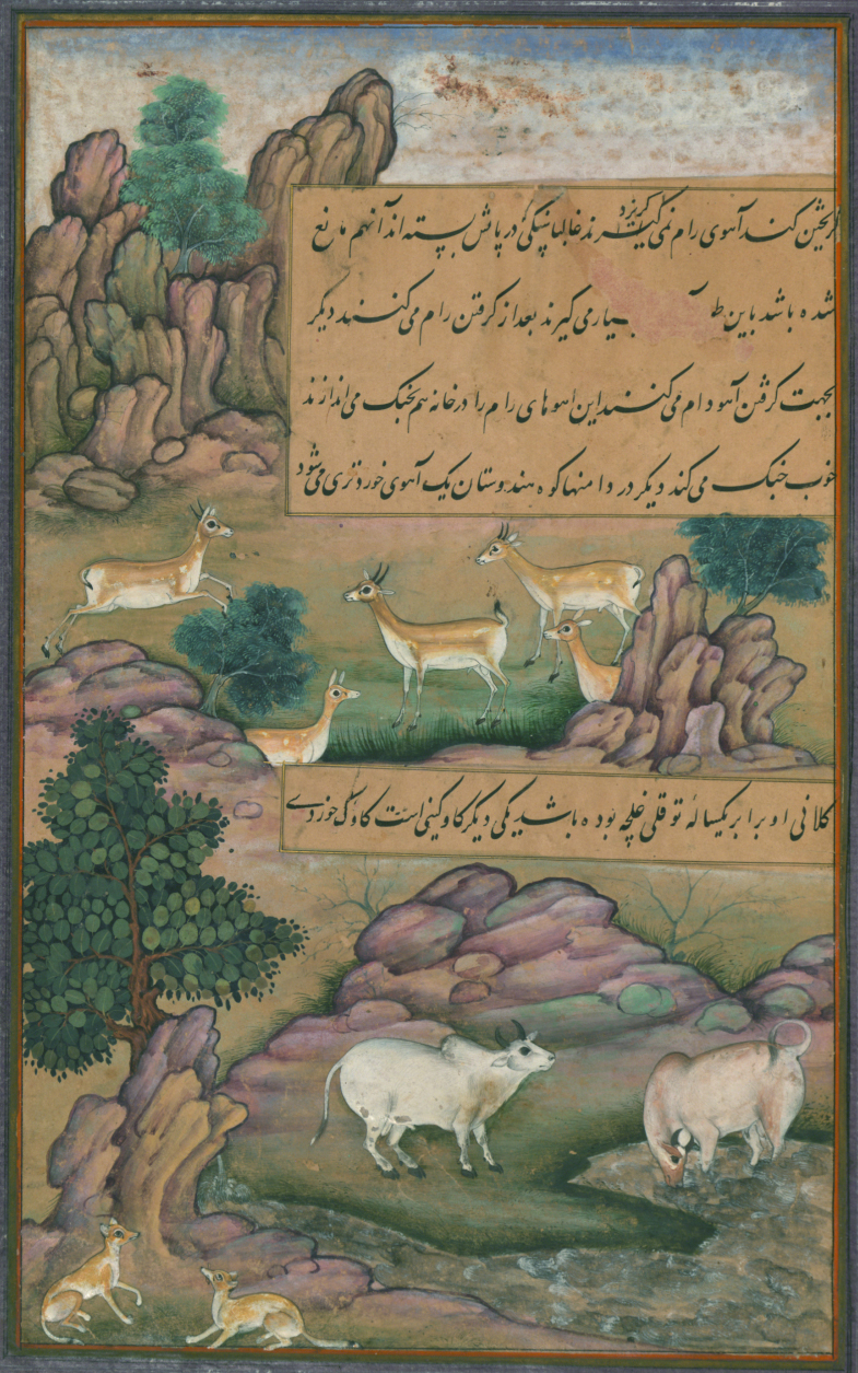 Illustrations from the Manuscript of Baburnama (Memoirs of Babur) - Late 16th Century Bāburnāma is the memoirs of Ẓahīr ud-Dīn Muḥammad Bābur (1483-1530), founder of the Mughal Empire and a great-great-great-grandson of Timur. It is an autobiographical work, originally written in the Chagatai language, known to Babur as "Turki" (meaning Turkic), the spoken language of the Andijan-Timurids. Because of Babur's cultural origin, his prose is highly Persianized in its sentence structure, morphology, and vocabulary,and also contains many phrases and smaller poems in Persian. During Emperor Akbar's reign, the work was completely translated to Persian by a Mughal courtier, Abdul Rahīm, in AH (Hijri) 998 (1589-90). These Paintings, being a fragment of a dispersed copy, was executed most probably in the late 10th AH /16th CE century. It contains 30 mostly full-page miniatures in fine Mughal style by at least two different artists. Another major fragment of this work (57 folios) is in the State Museum of Eastern Cultures, Moscow.